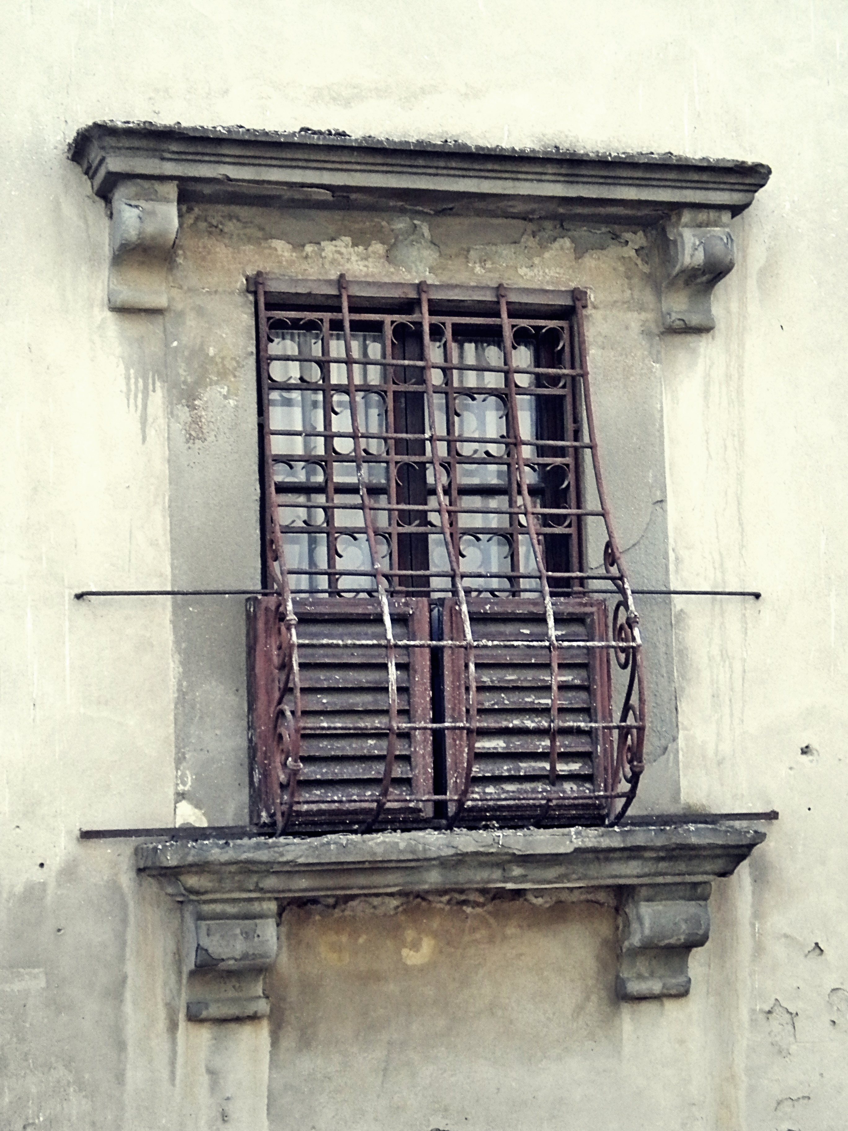 window